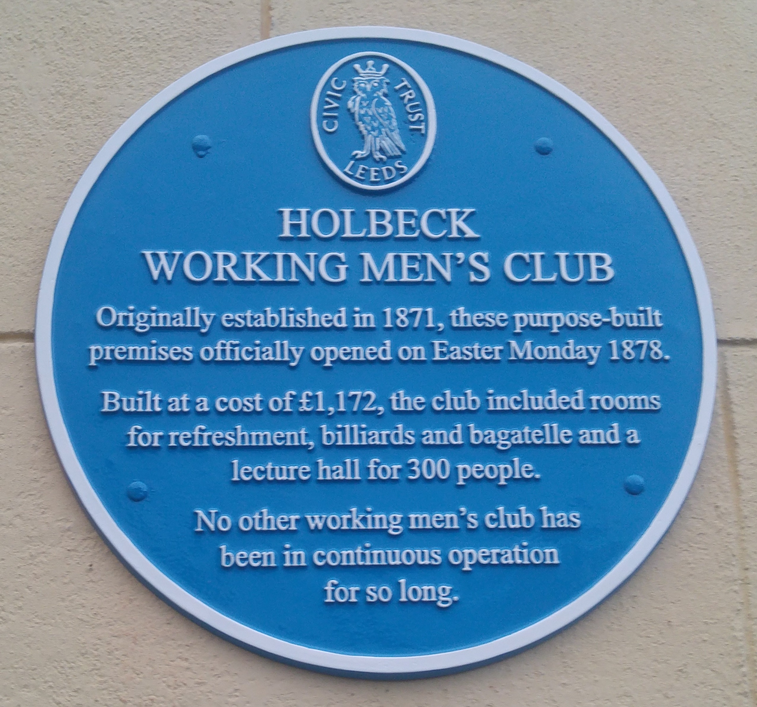 Blue Plaque on Holbeck Working Men's Club, commemorating its role in workers education, the community and the fact it is the longest continuously running club in the world.